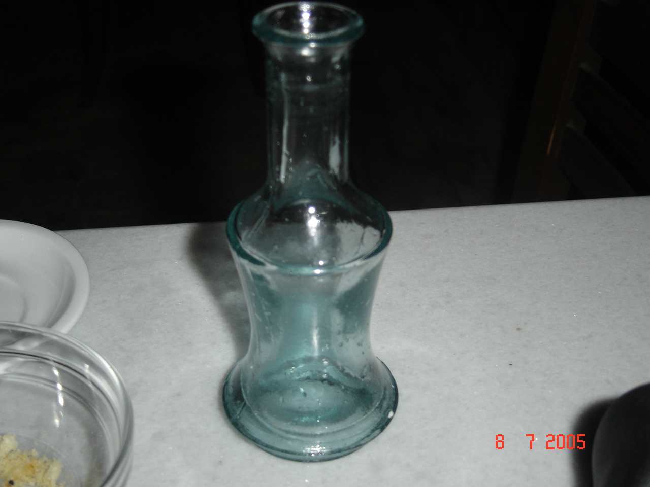 Bottle for raki or tsipouro